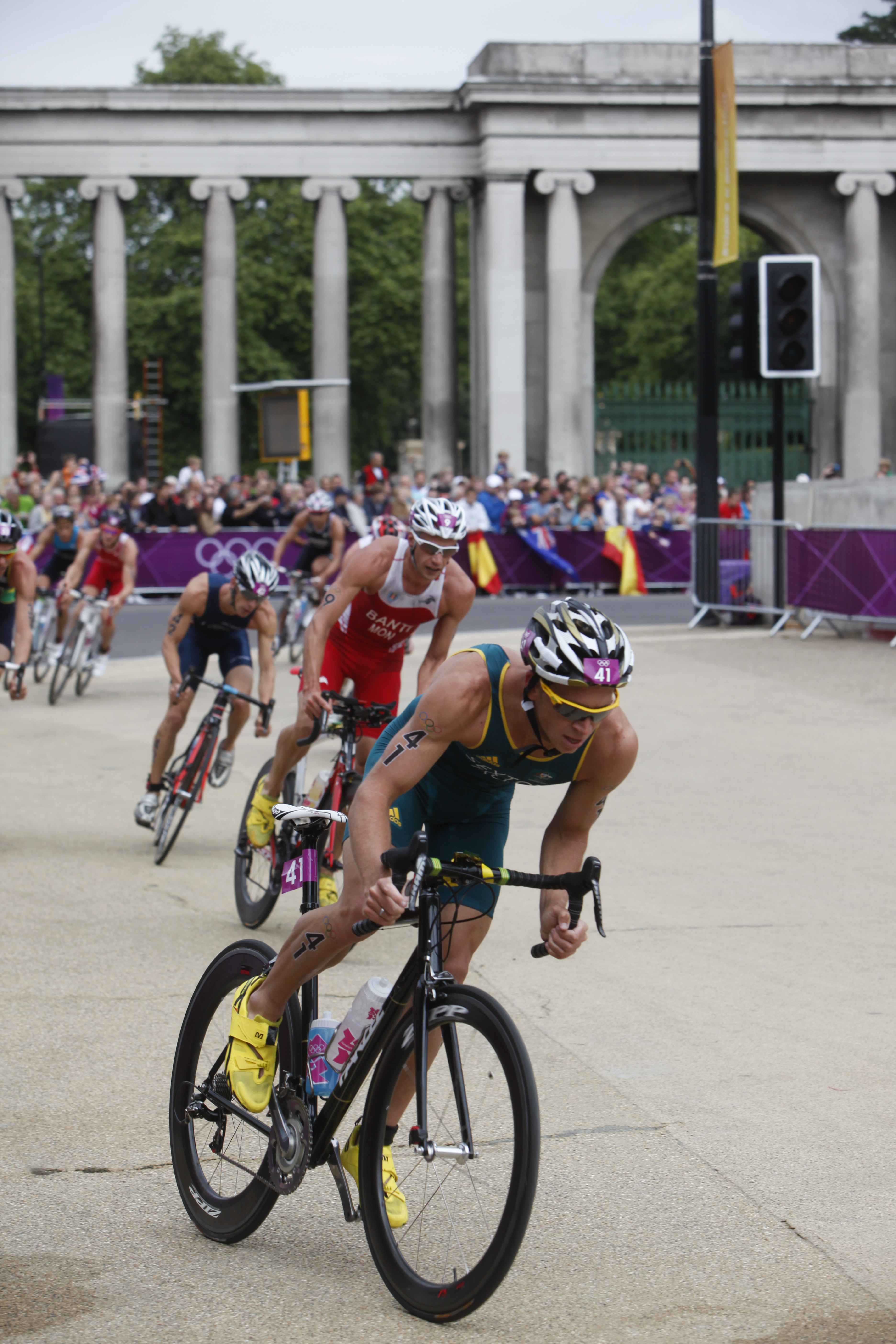 07.08.12 Action from the Triathlon Picture by David Poultney for GOC